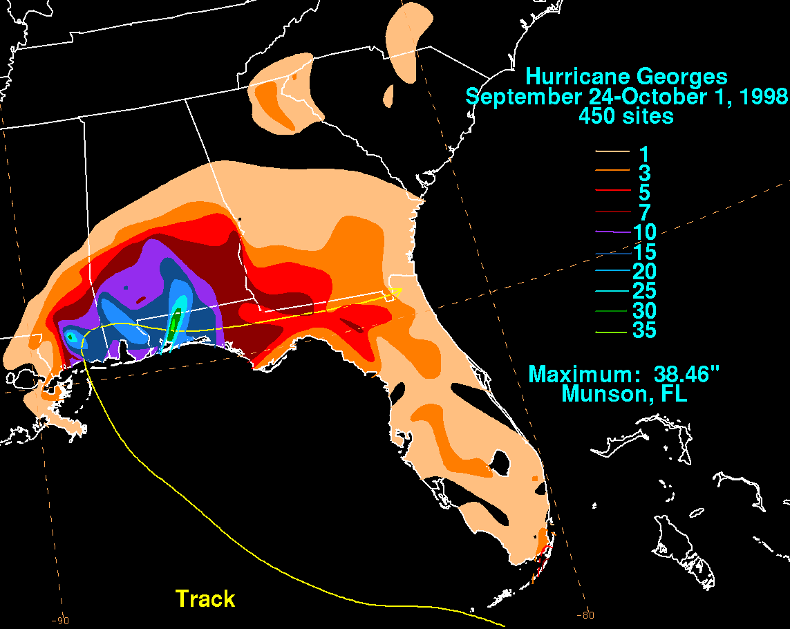 Rainfall produced by Hurricane Georges during September and October 1998.